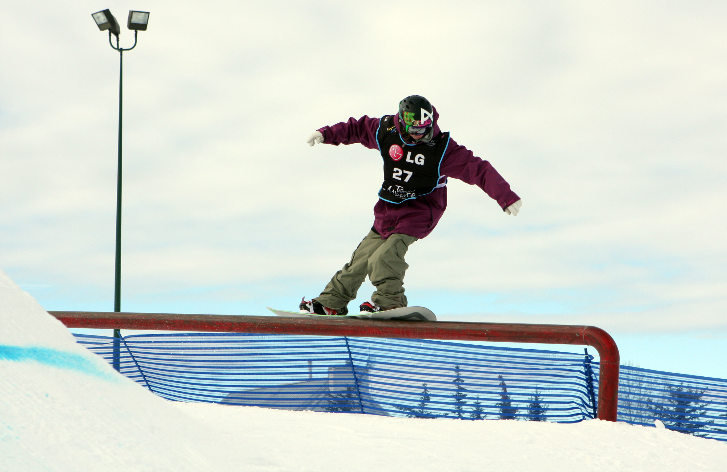 Calgary_SBS_Kevin_Baeckstroem_SWE_03